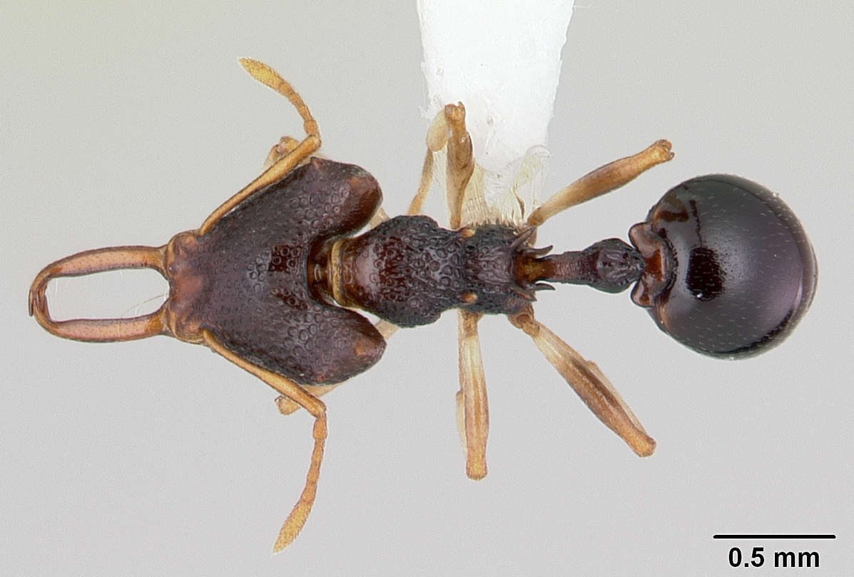 Dorsal view of ant Microdaceton tibialis specimen casent0178295.